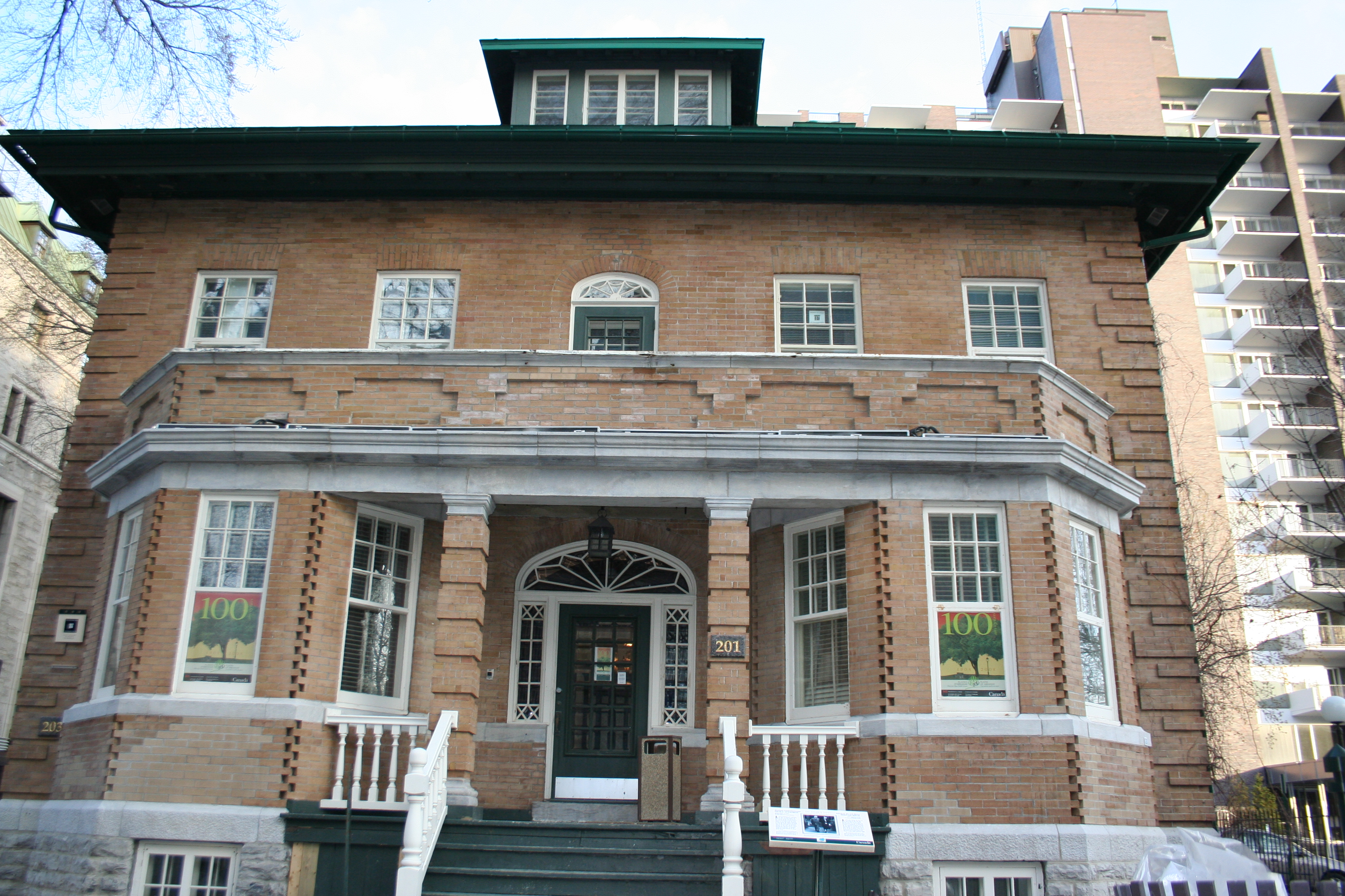 Residence of the Right Hon. Louis S. St-Laurent from 1924-1973, Quebec City, QC